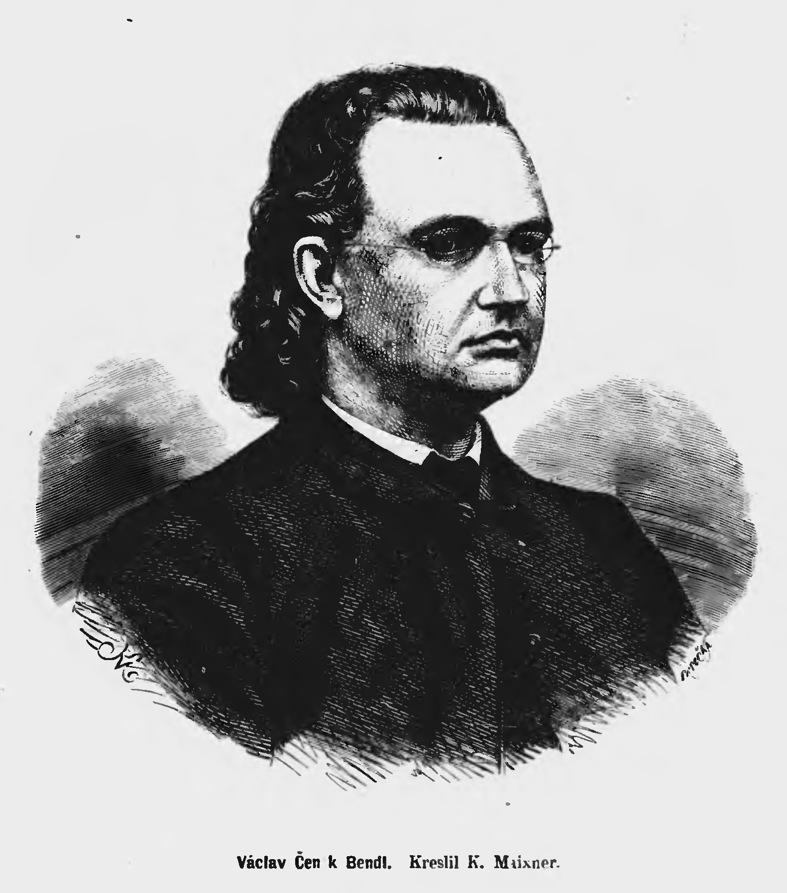 Portrait of Václav Čeněk Bendl-Stránický (1832-1870), Czech priest and writer.